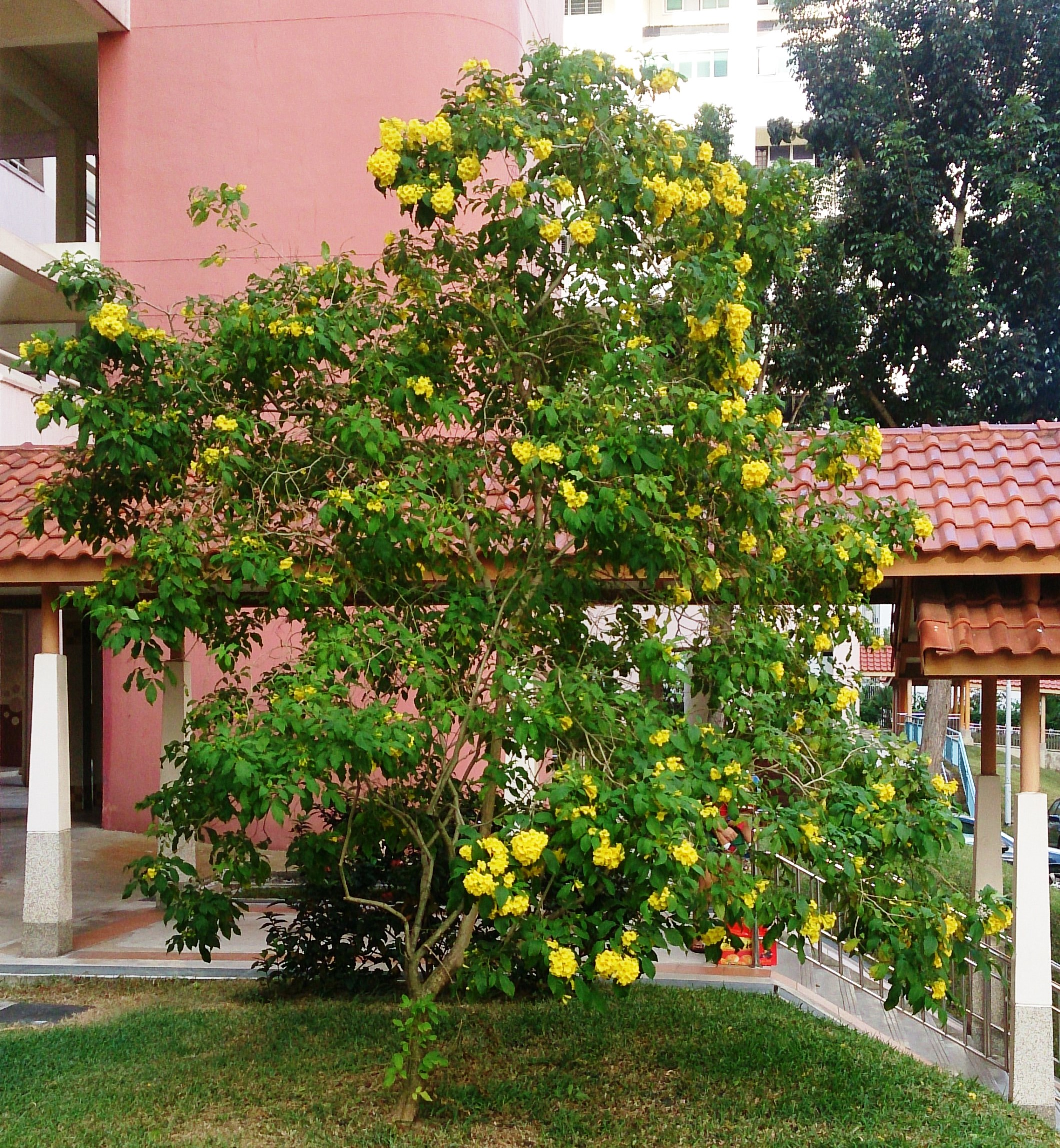 Tecoma stans. Common names: yellow bells, yellow trumpet bush. Chinese name: 黄钟花